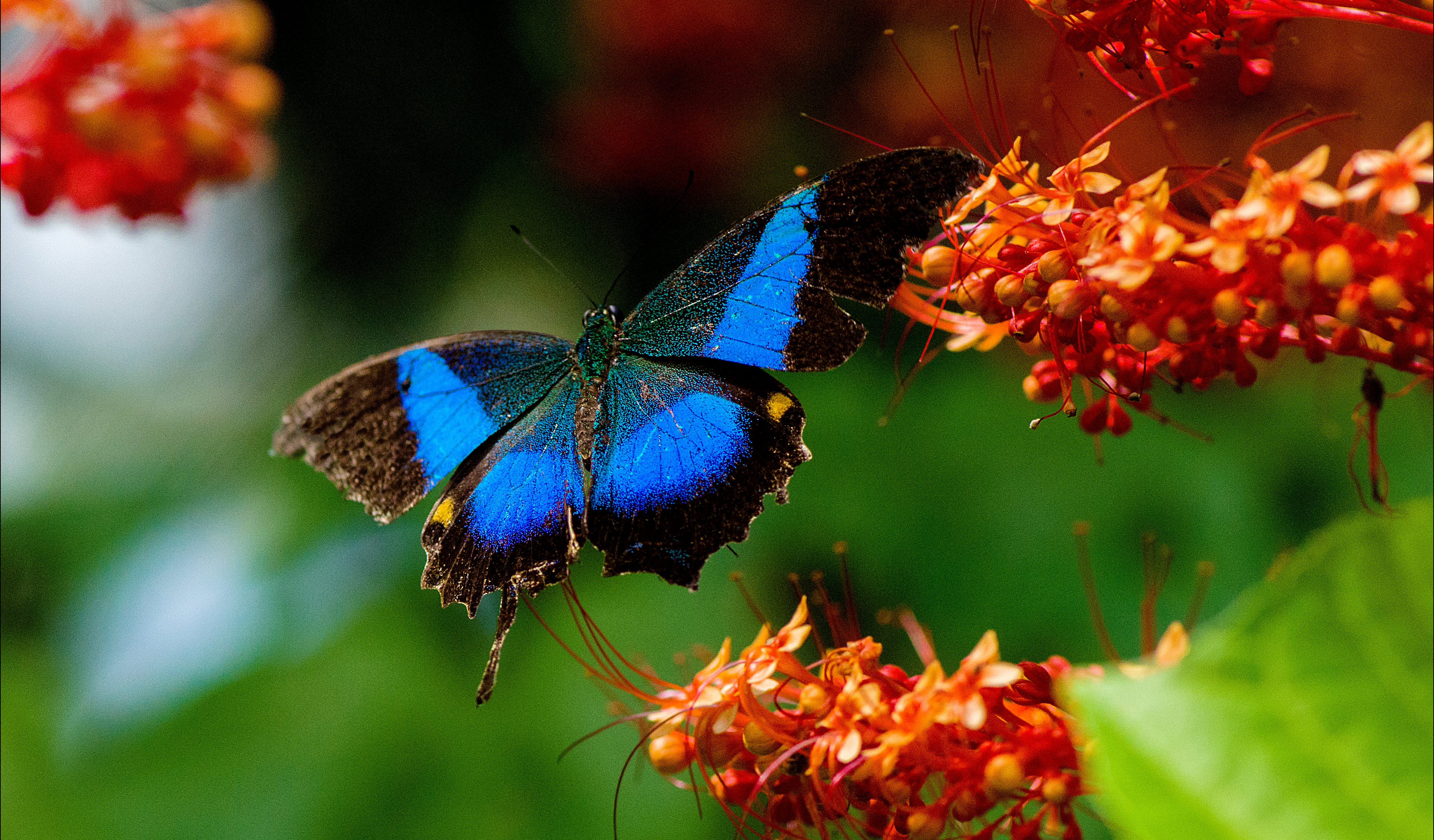 Papilio Buddha,known as Malabar Banded peacock,recorded from Chamakkavu,a sacred grove near Payyannur in North Kerala.